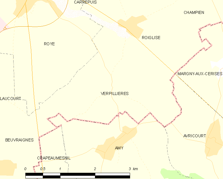 Map of French municipality Verpillières